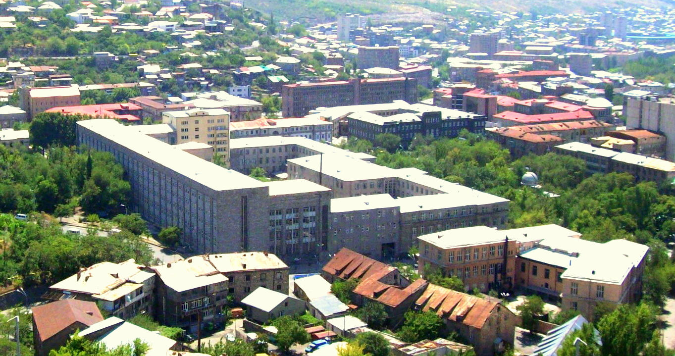 Armenian National Agrarian University, Yerevan, Armenia.